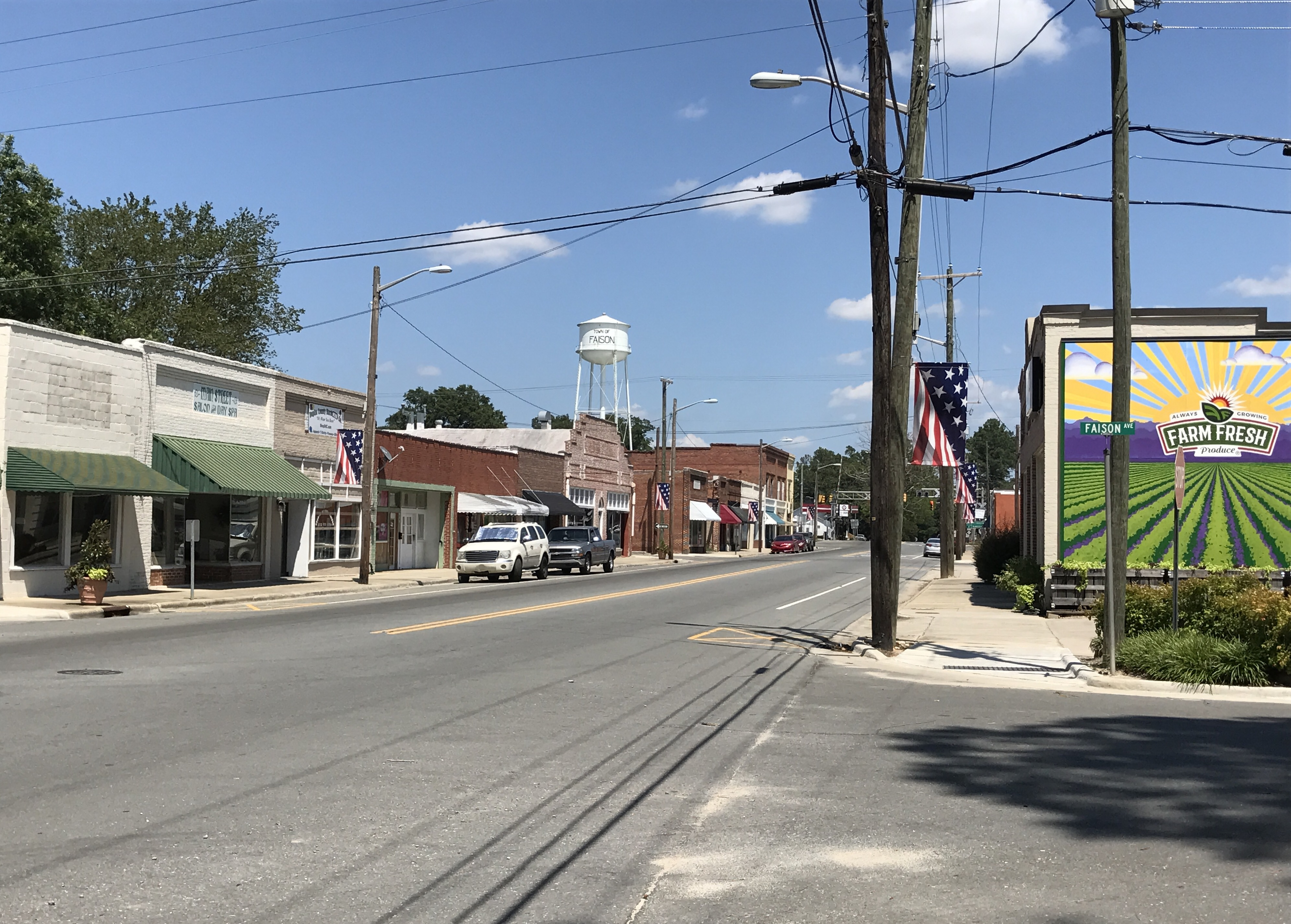 Downtown Faison as seen from West Main Street